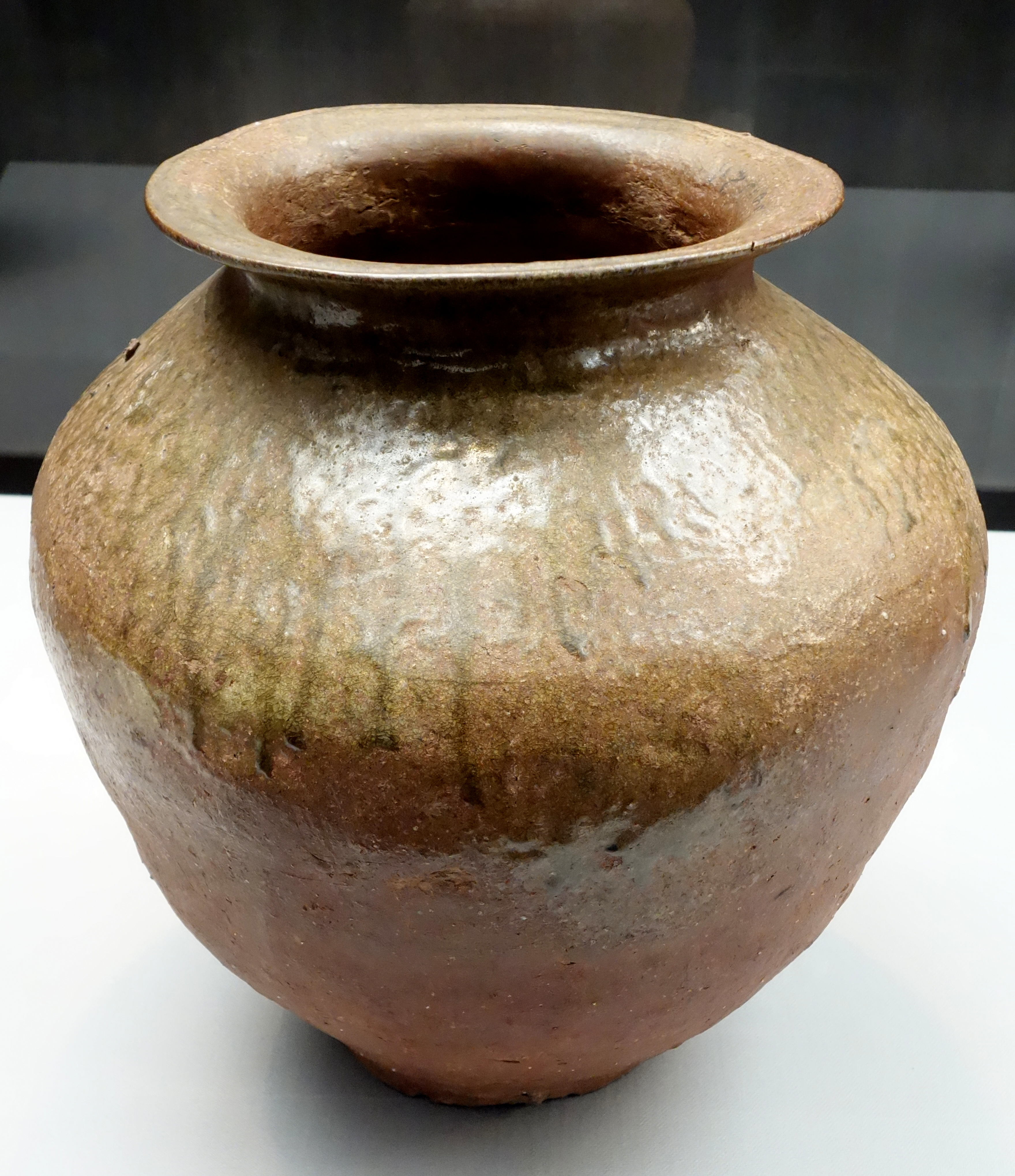 Exhibit in the Tokyo National Museum, Tokyo, Japan. This artwork is old enough so that it is in the public domain.